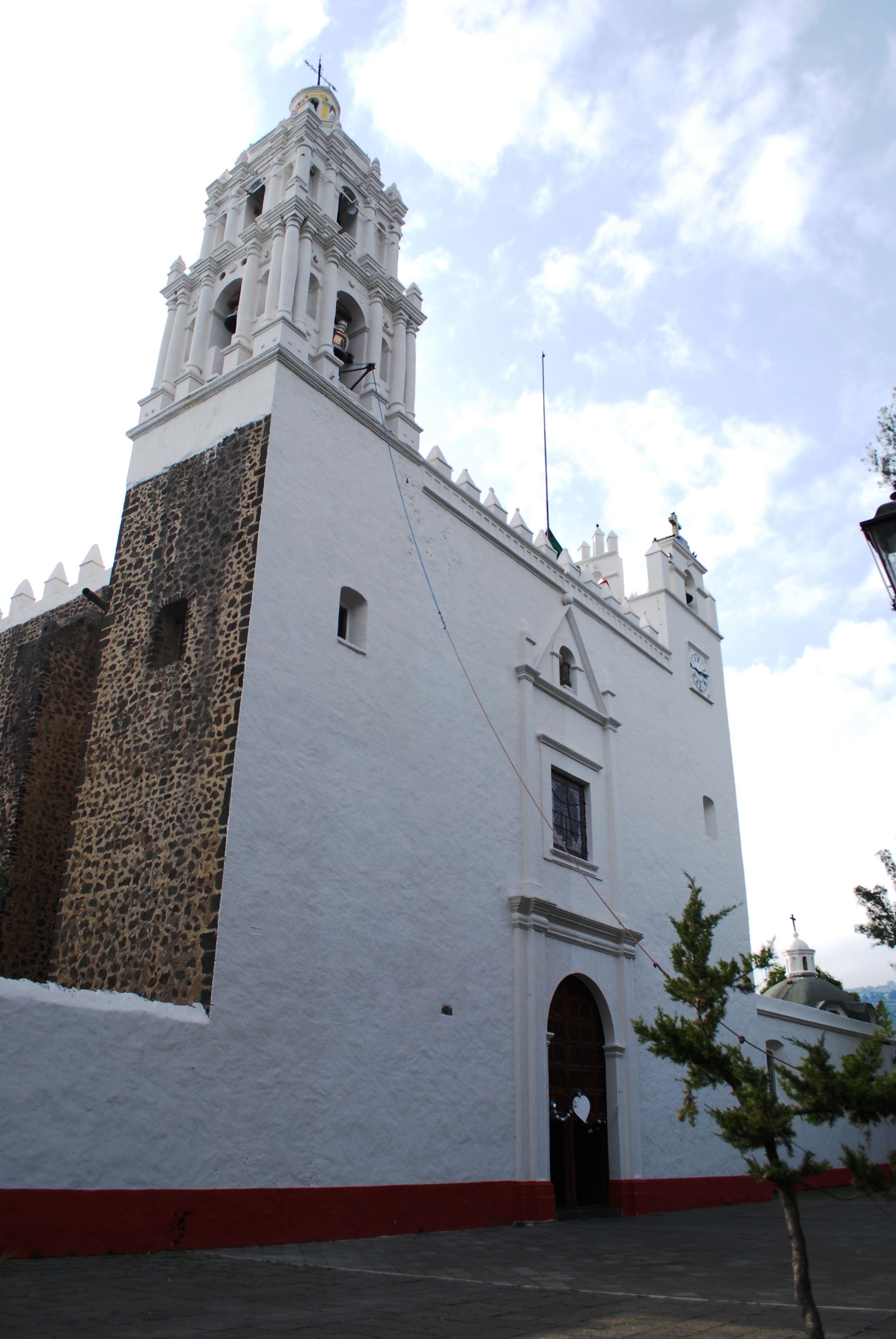 Facade of the Asunción de María church in Villa Milpa Alta, Mexico City